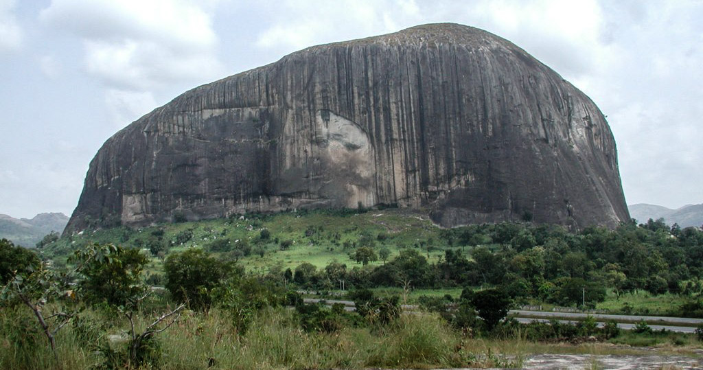 Zuma Rock formation in Nigeria.